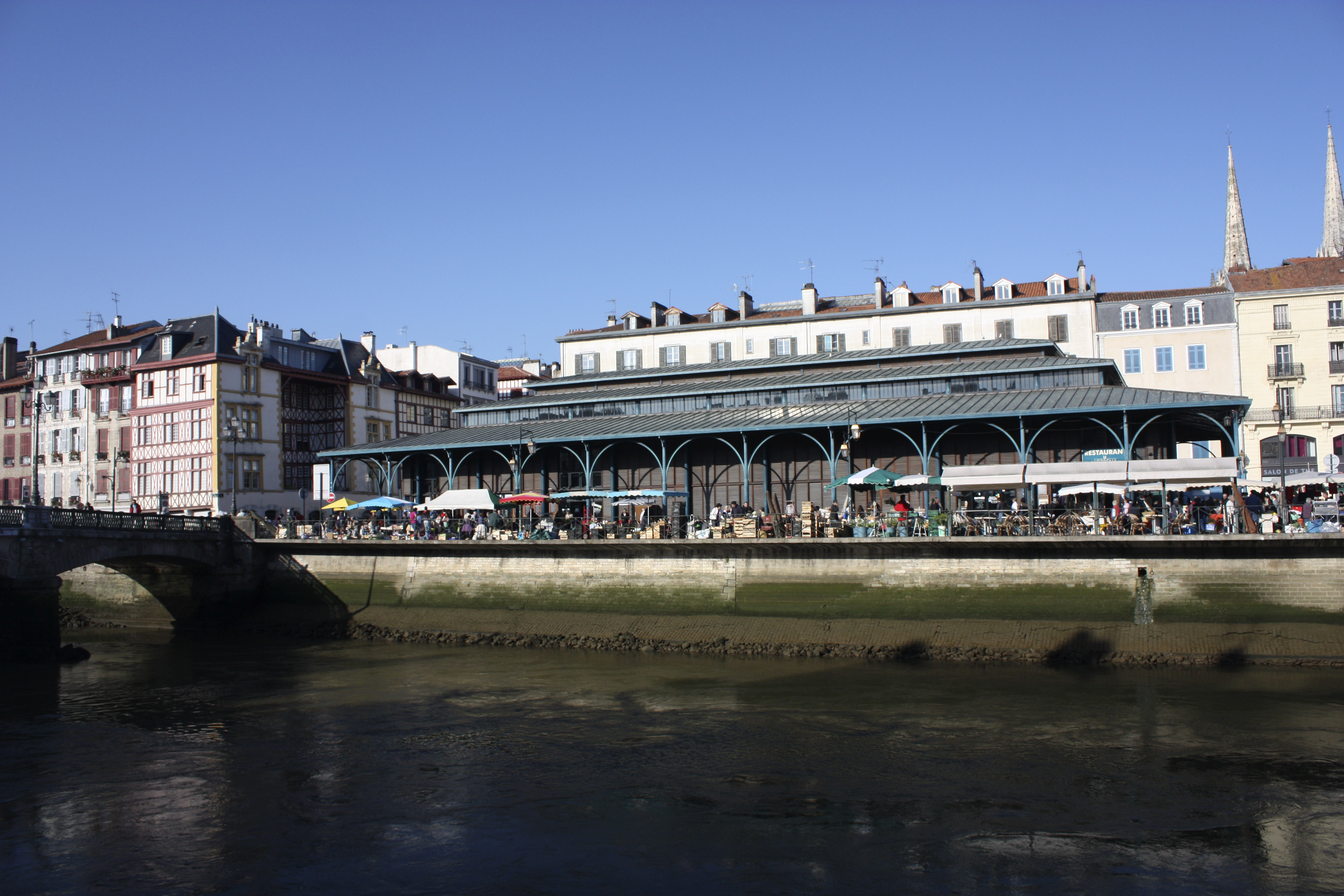 The new market place, in style Baltard, replace a building constructed by O Niemeyer in the fifties, original but in little harmony with the rest of the city.